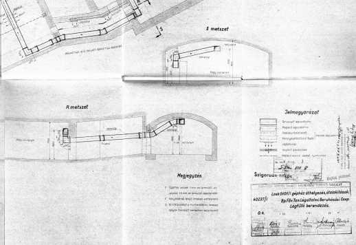 Hospital in the Rock, Blueprint parts